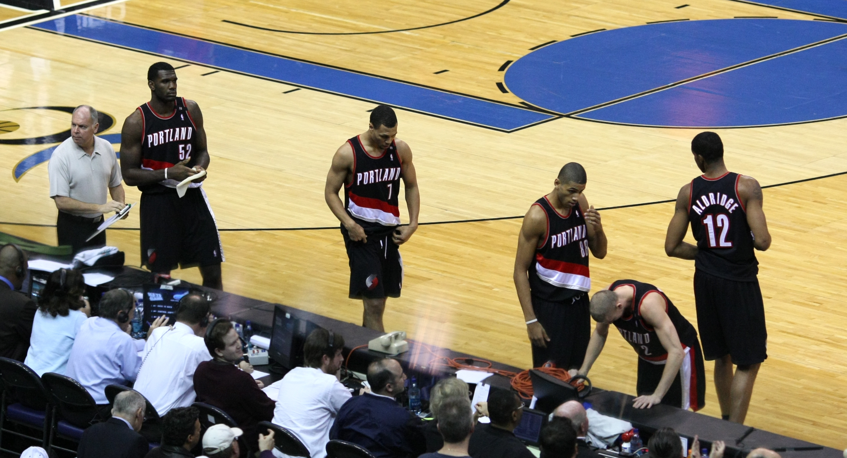 Portland Trail Blazers